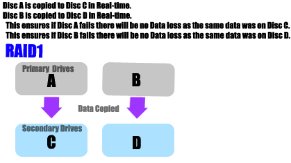 This Image is a simple depiction of Disc mirroring on a system with 4 drives